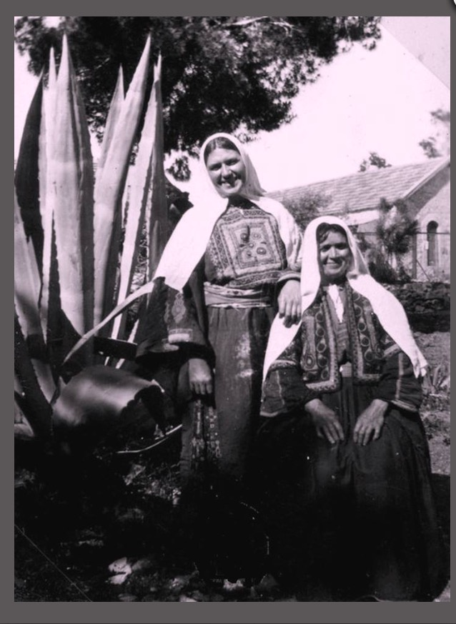 Dayr al-Qasi, 1937